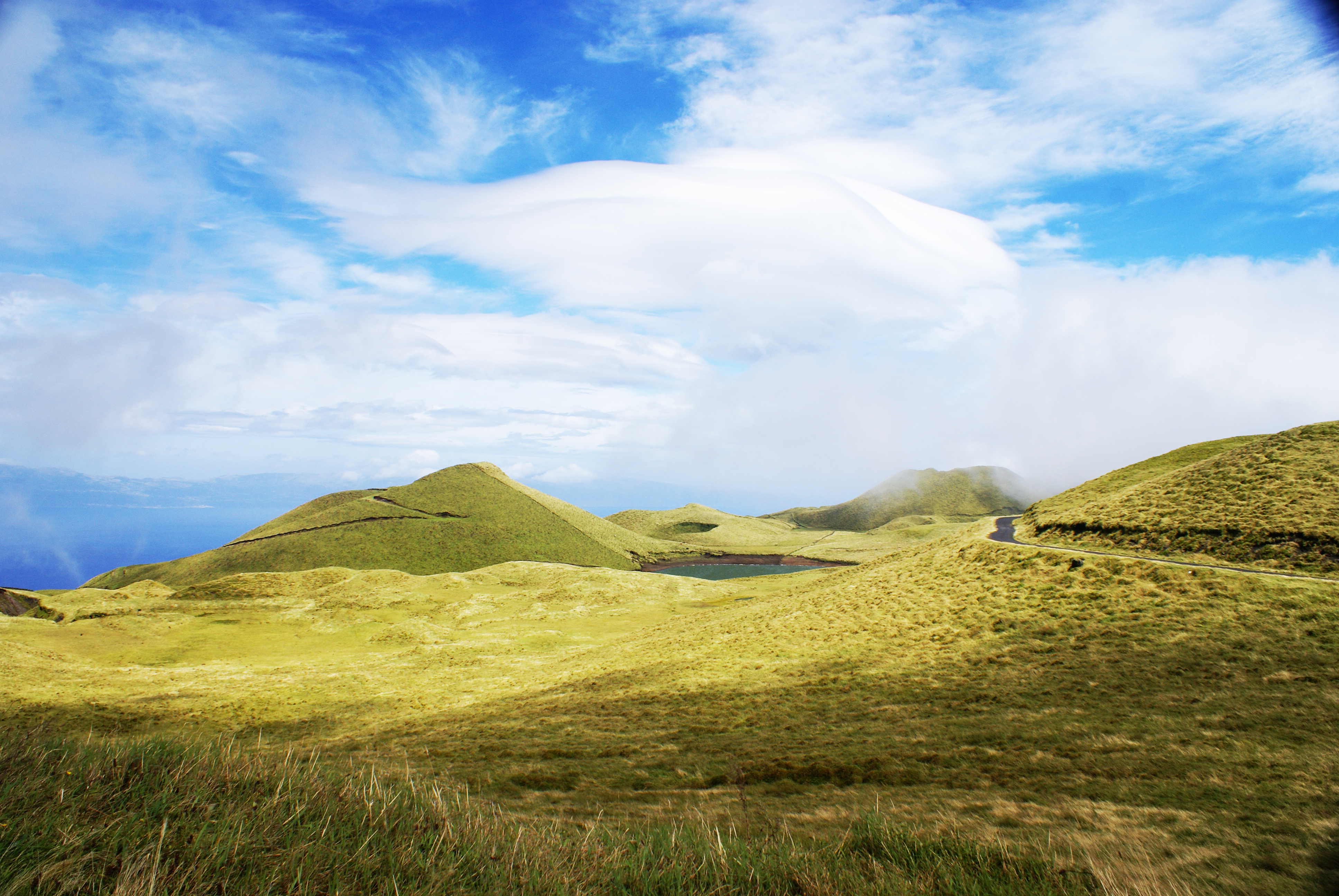 Interior montanhoso da ilha do Pico, lagoas perdidas no verde, Açores, Portugal